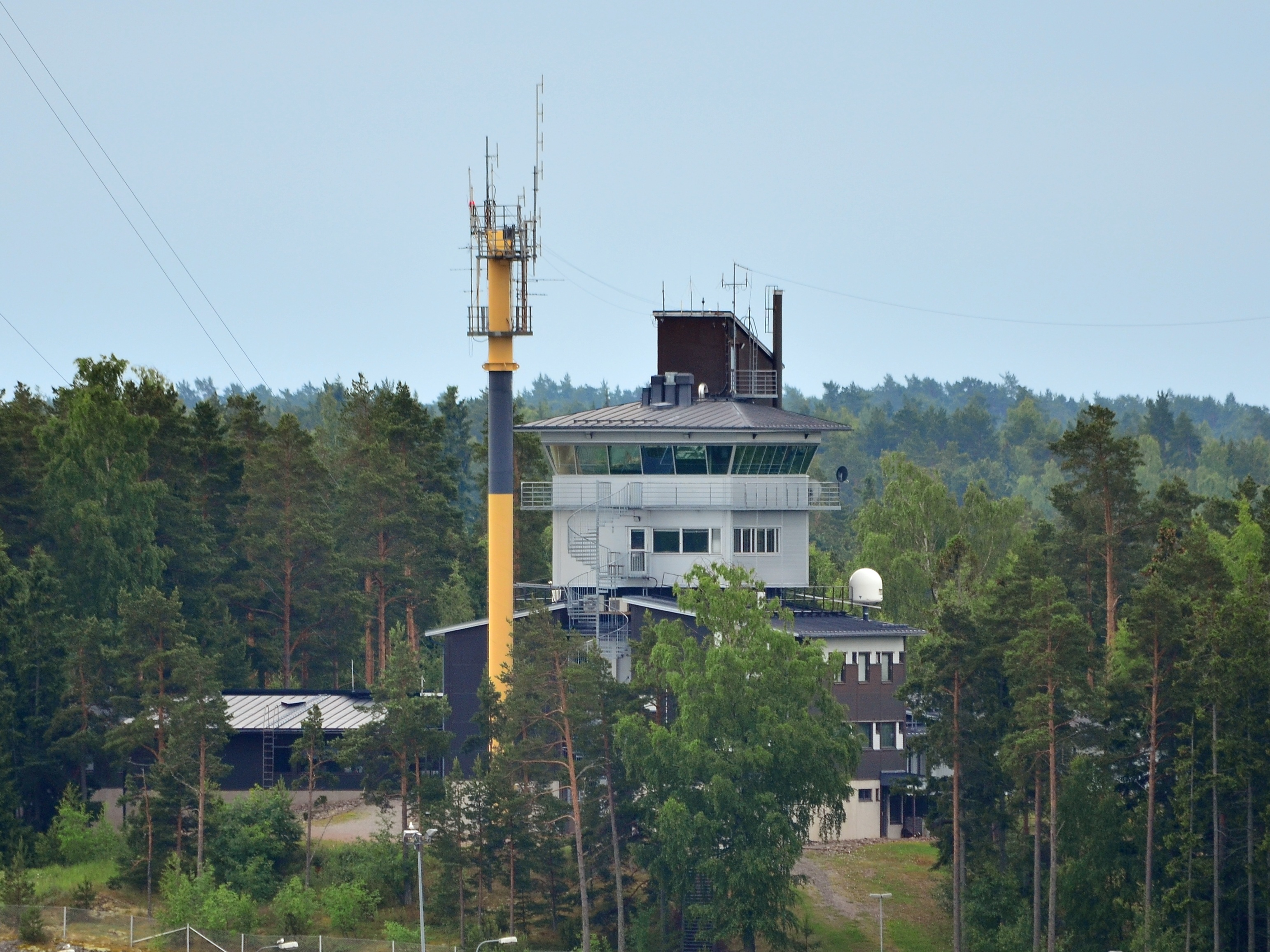 The Coast guard station and VTS-central in Pärnäs, Nagu, Finland proper.